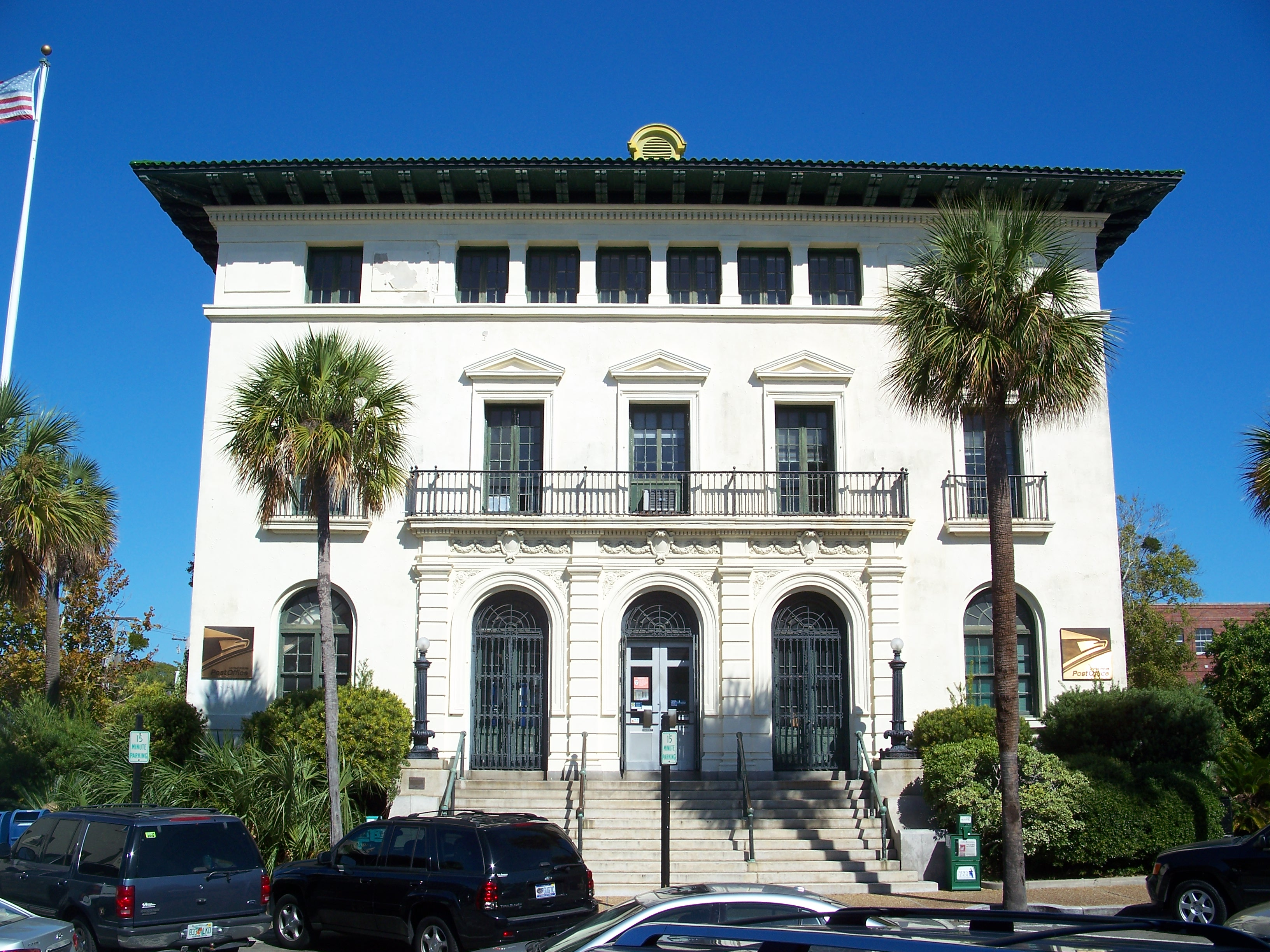 Fernandina Beach, Florida: Post Office and Customs House